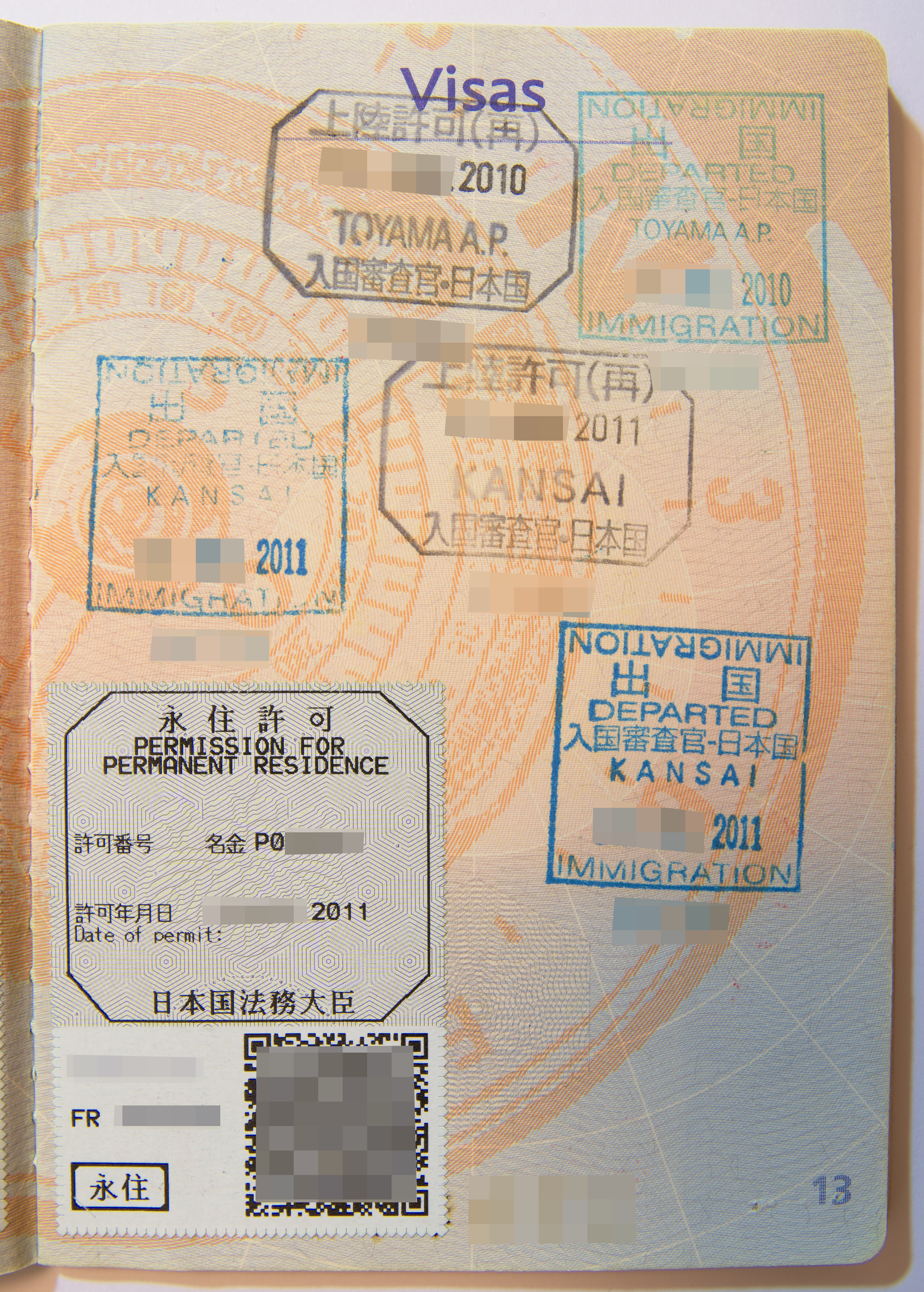 Japanese entry and departure visas, and a Japanese permission for permanent residence issued in 2011 on a French passport.